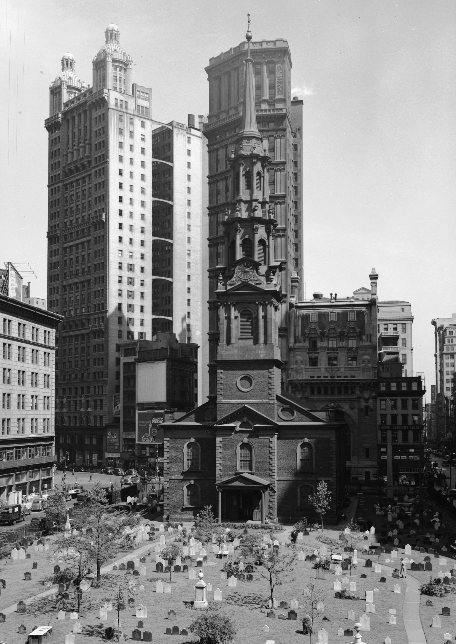 Photo of St. Paul's Chapel from Trinity Place, showing the church yard. Background left is the Park Row Building. Directly behind the steeple is the St. Paul Building.